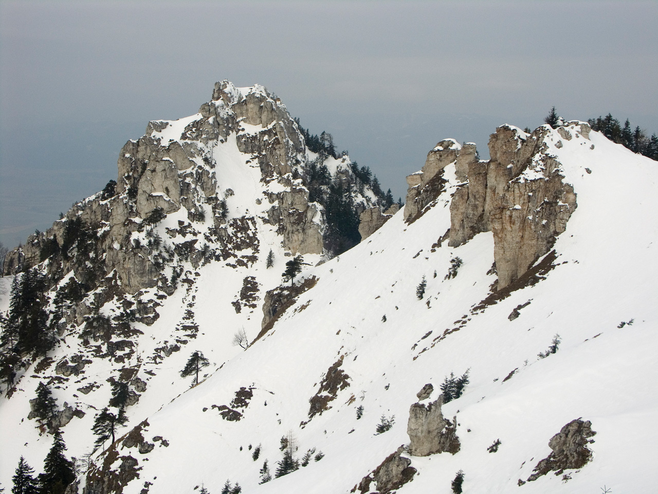 The western summit of Ostrá Mountain in the Greater Fatra, Slovakia